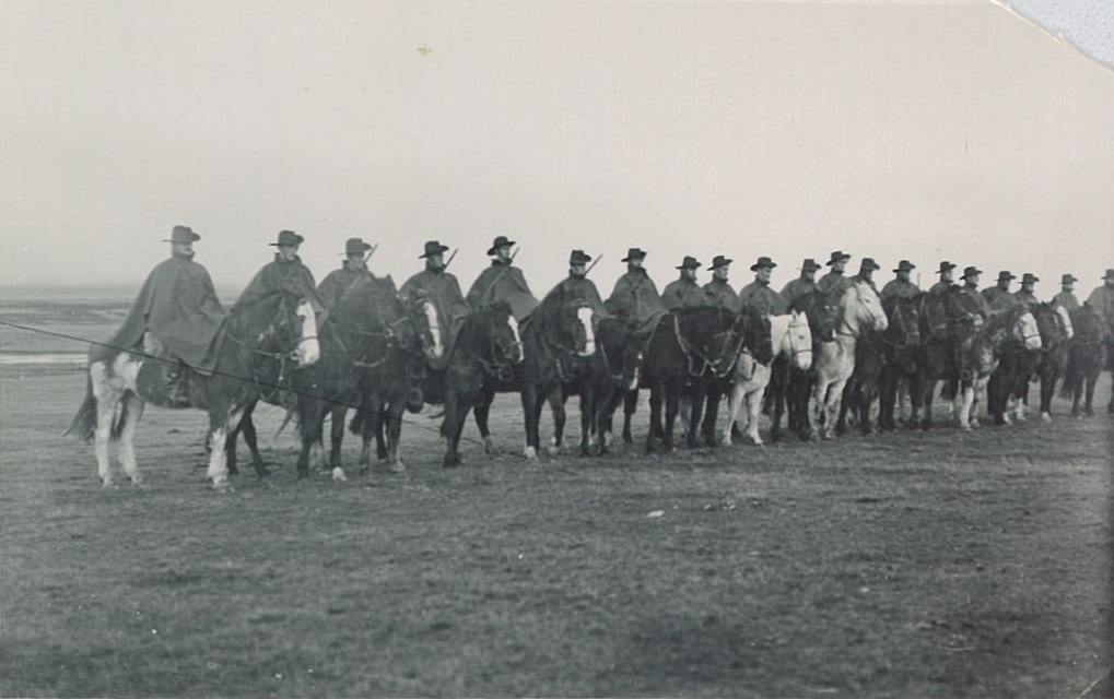 A mounted detachment of the Falkland islands Defence Force.